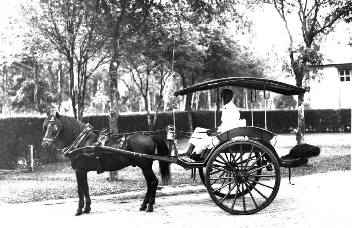 A sado